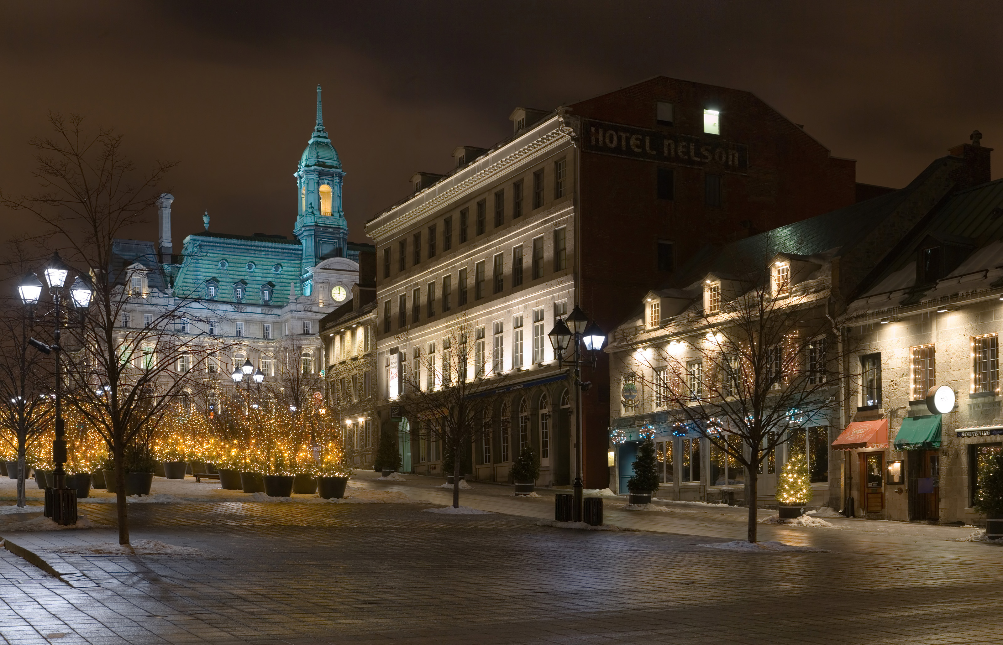 A 3 segment panorama of Place Jacques-Cartier on a cold winter night. Taken with a Canon 5D and 24-105mm.